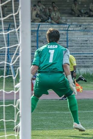 Sasa Dreven against East Bengal in AFC Cup 2013